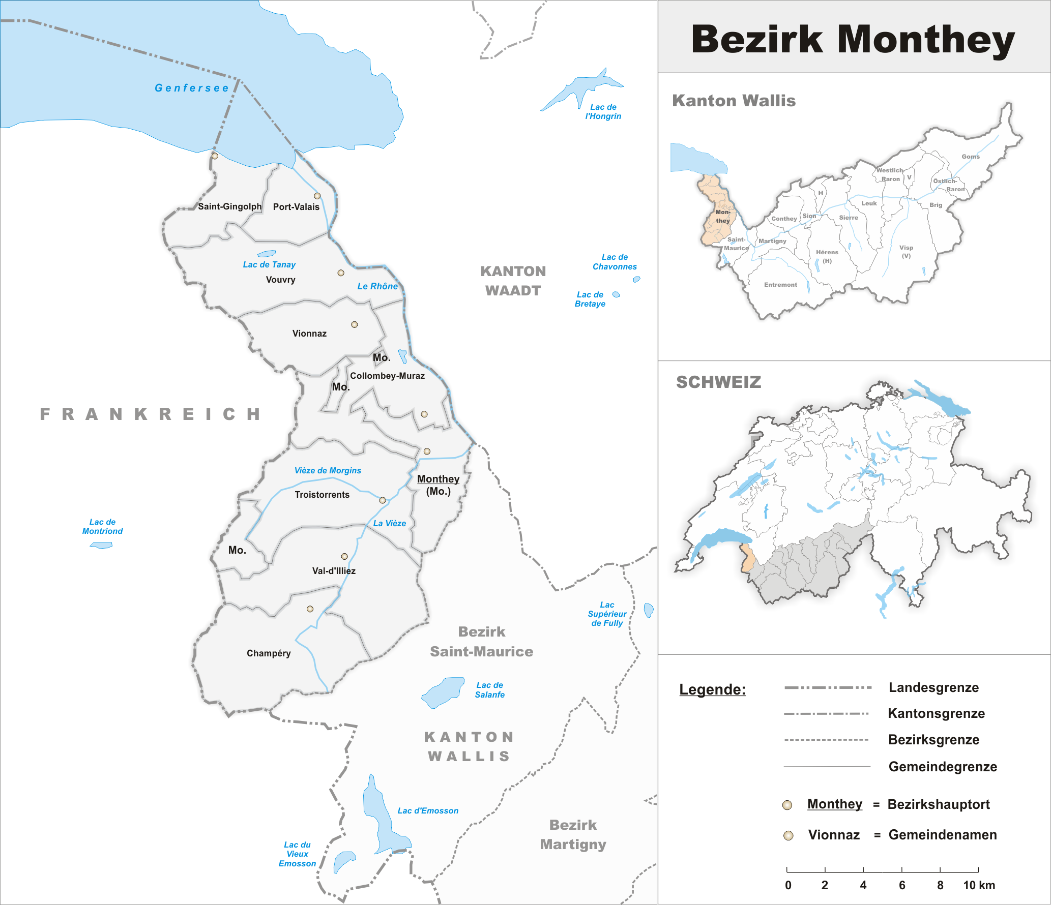 Municipalities in the district of Monthey